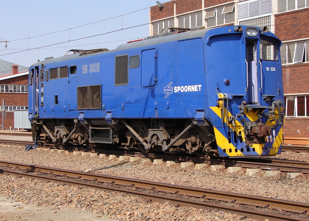 Spoornet Class 18E Series 1 18-328Location: Sentrarand, GautengHistory: Rebuilt in 2007 from Class 6E1 Series 9 E2071